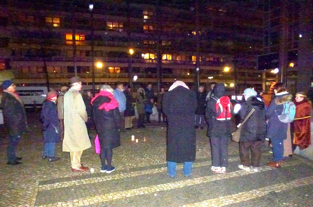 Prayer for Peace, Berlin , January 5, 2019